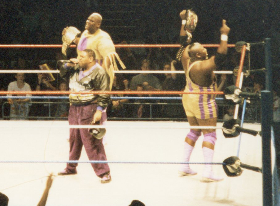 Men on a Mission celebrate their first and only WWF Tag Team Championship after defeating the Quebecers in London, England's Royal Albert Hall.